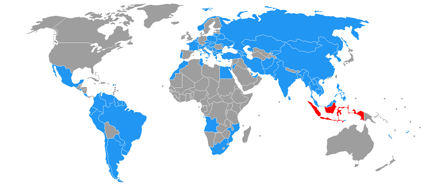 Visa policy of Indonesia for holders of diplomatic or service category passports Indonesia Visa free access for diplomatic and service category passports